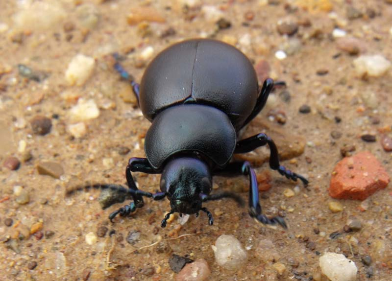 Timarcha nicaeensis photographed near Grosseto, Tuscany, central Italy. Photo by Massimiliano Marcelli.